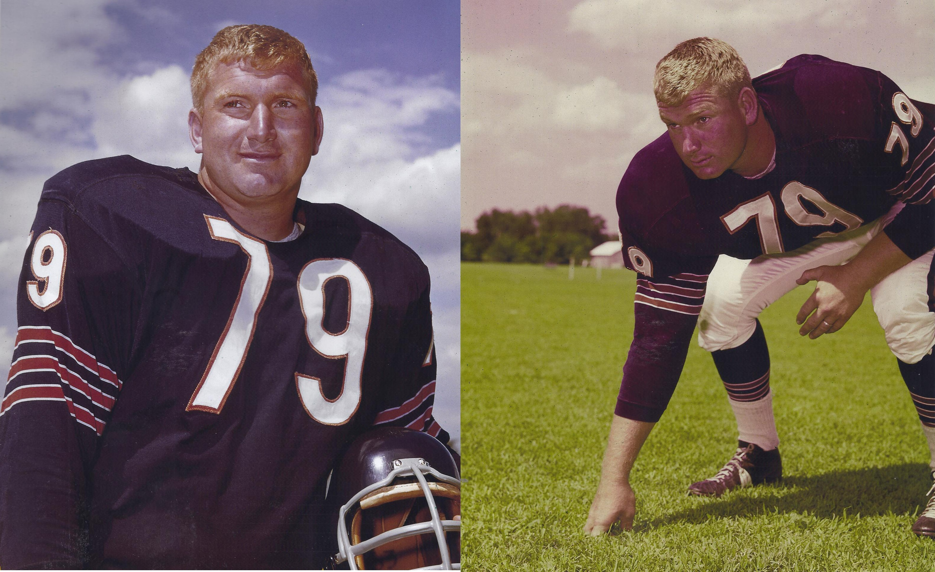 2 photographs of Art Anderson, 1962 Chicago Bears. Taken for a trading cards that were never produced.